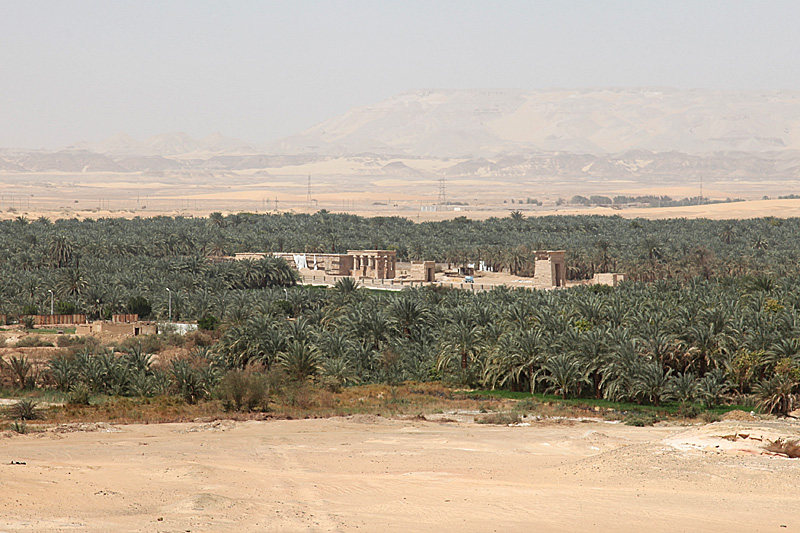 View Temple of Hibis seen from the upper temple of el-Nadura, el-Kharga depression, Egypt